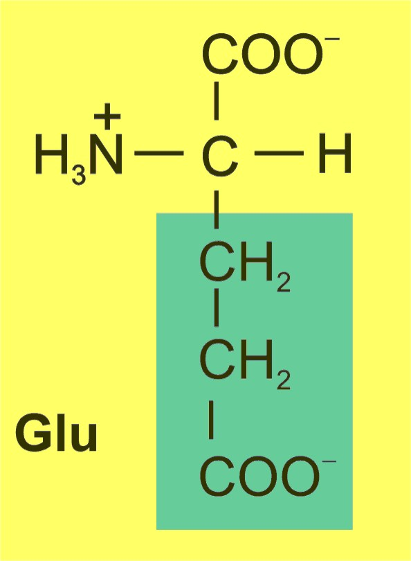 Glutamic acid amino acid formula jpg